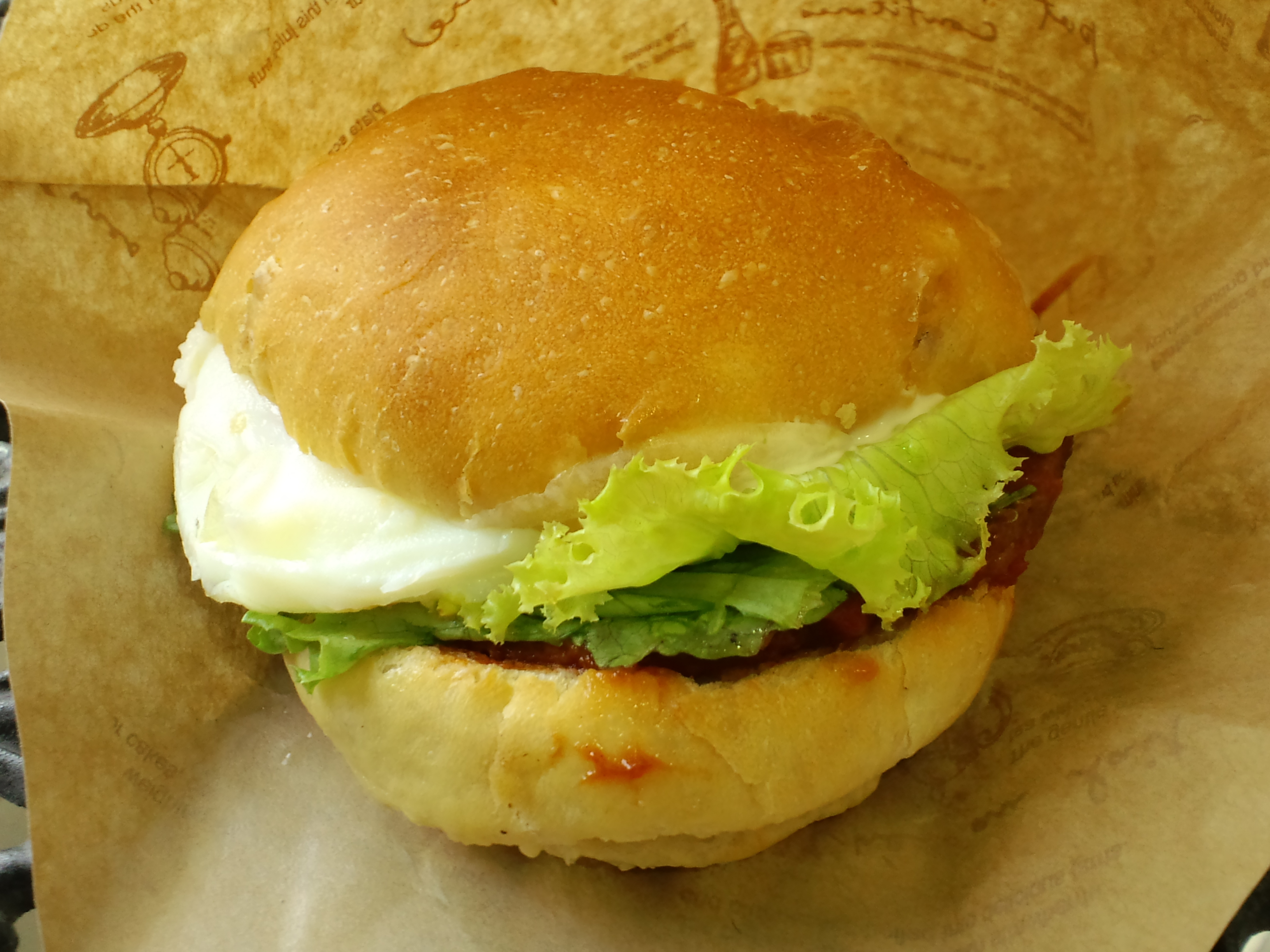 Iwamizawa burger